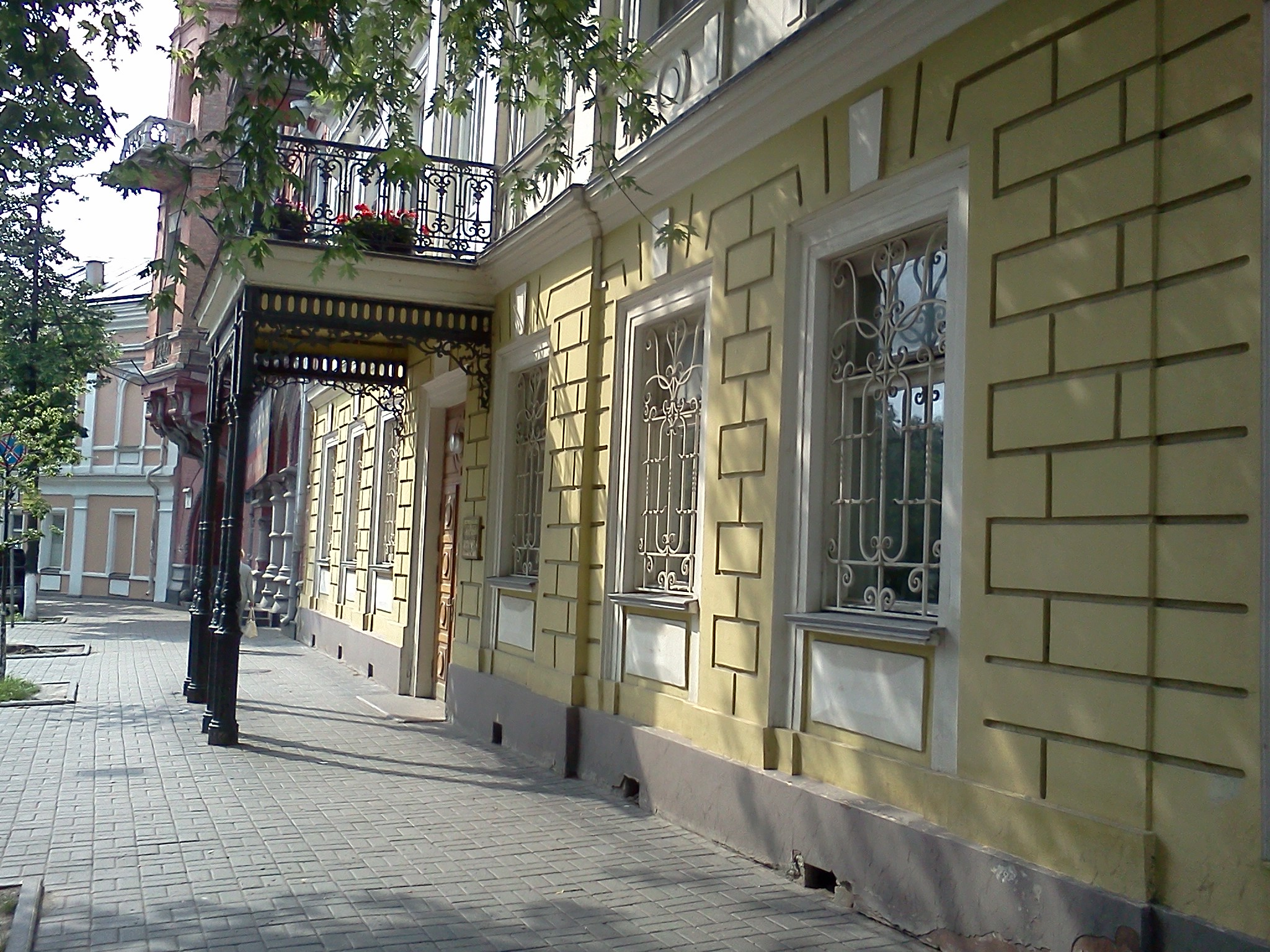 Rezydetsiya Ambassador of India in Kyiv